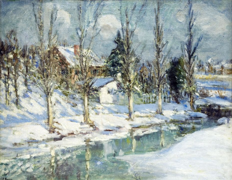 The Frozen Creek by Frederick R. Wagner, oil on canvas, 28 1/8 x 35 1/8 in., 71.4 x 89.2 cm, Palmer Museum of Art